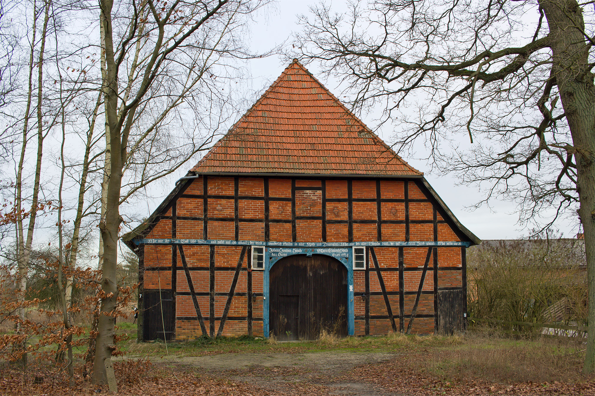 Cultural heritage monument building No 7 in the village Schaafhausen near Dannenberg (Elbe).